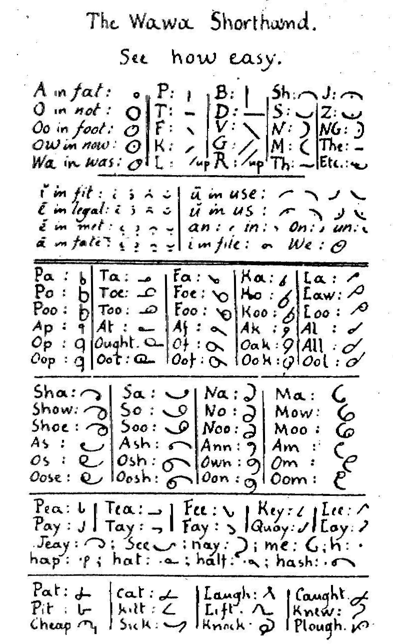 Source here is public domain copies of the Kamloops Wawa in the Simon Fraser University Library; no copyright was ever reserved by the Catholic Church, the publisher, and all materials are available in certain university and public libraries in British Columbia. I'm marking this "self-made" as the scan was self-made, not sure if other PD licensing is more appropriate.